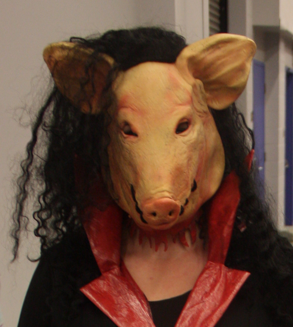 Saw pig mask at Montreal Comiccon 2015